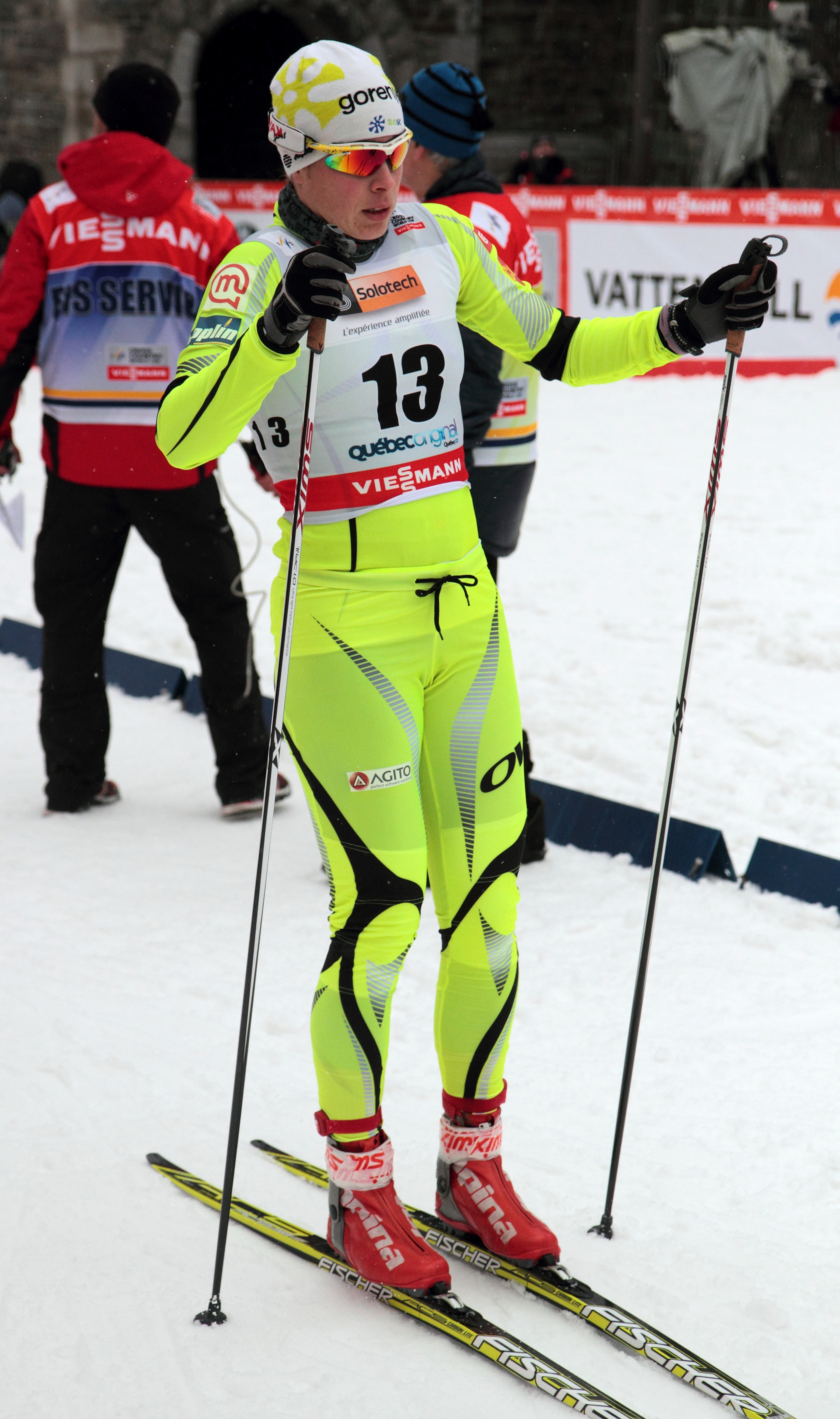 Vesna Fabjan, FIS Cross-Country World Cup 2012, Quebec, Canada.